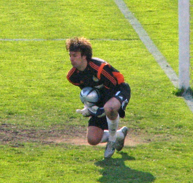 Oleksandr Shovkovskiy of FC Dynamo Kyiv saves a shot from FC Metalurh Zaporizhya at the Ukrainian Cup final 2006 in Kyiv.